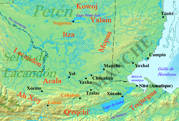 Map of the principal settlements, neighbours and trading partners of the Manche Ch'ol, a Maya people inhabiting southeastern Guatemala and southern Belize. Sources: Lost Shores, Forgotten Peoples: Spanish Explorations of the South East Maya Lowlands by Lawrence H. Feldman 2000, pp. xvi-xx. Relaciones de Verapaz y las Tierras Bajas Mayas Centrales en el siglo XVII by Laura Caso Barrera and Mario Aliphat, 2007, p. 50. In XX Simposio de Investigaciones Arqueológicas en Guatemala, 2006 (edited by J.P. Laporte, B. Arroyo and H. Mejía). Museo Nacional de Arqueología y Etnología, Guatemala.